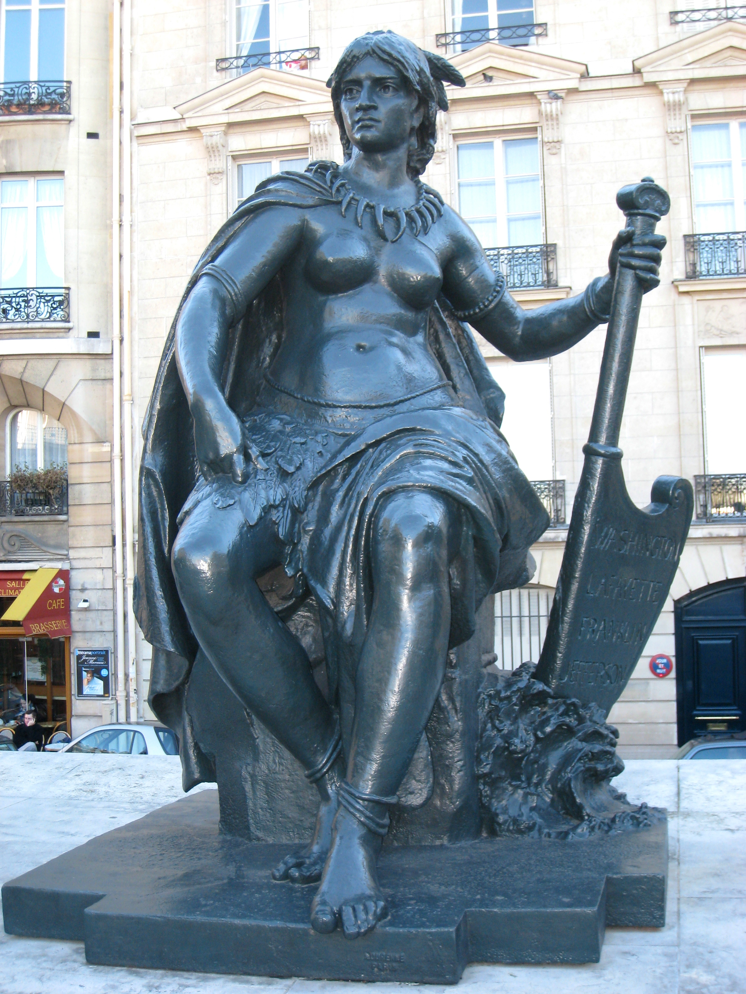 Ernest-Eugène Hiolle (1834-1886) - "L'Amérique du Nord" - Esplanade du Musée d'Orsay, Paris, France. Statue representing the North American continent.